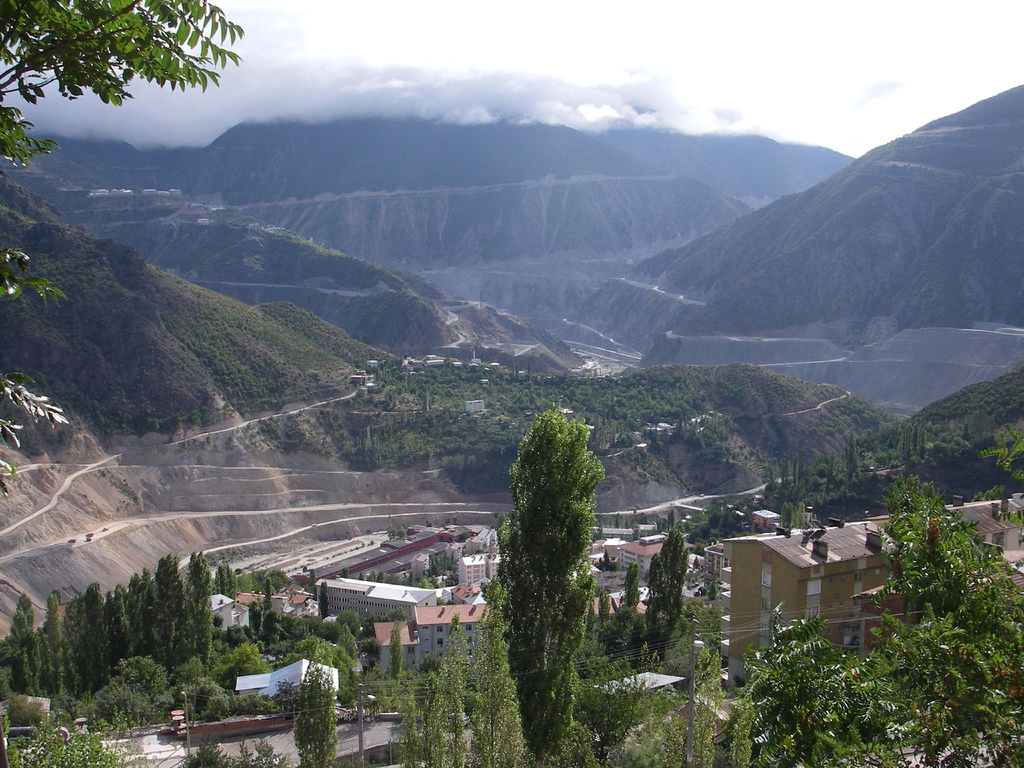 The City of Artvin (North-East Turkey)